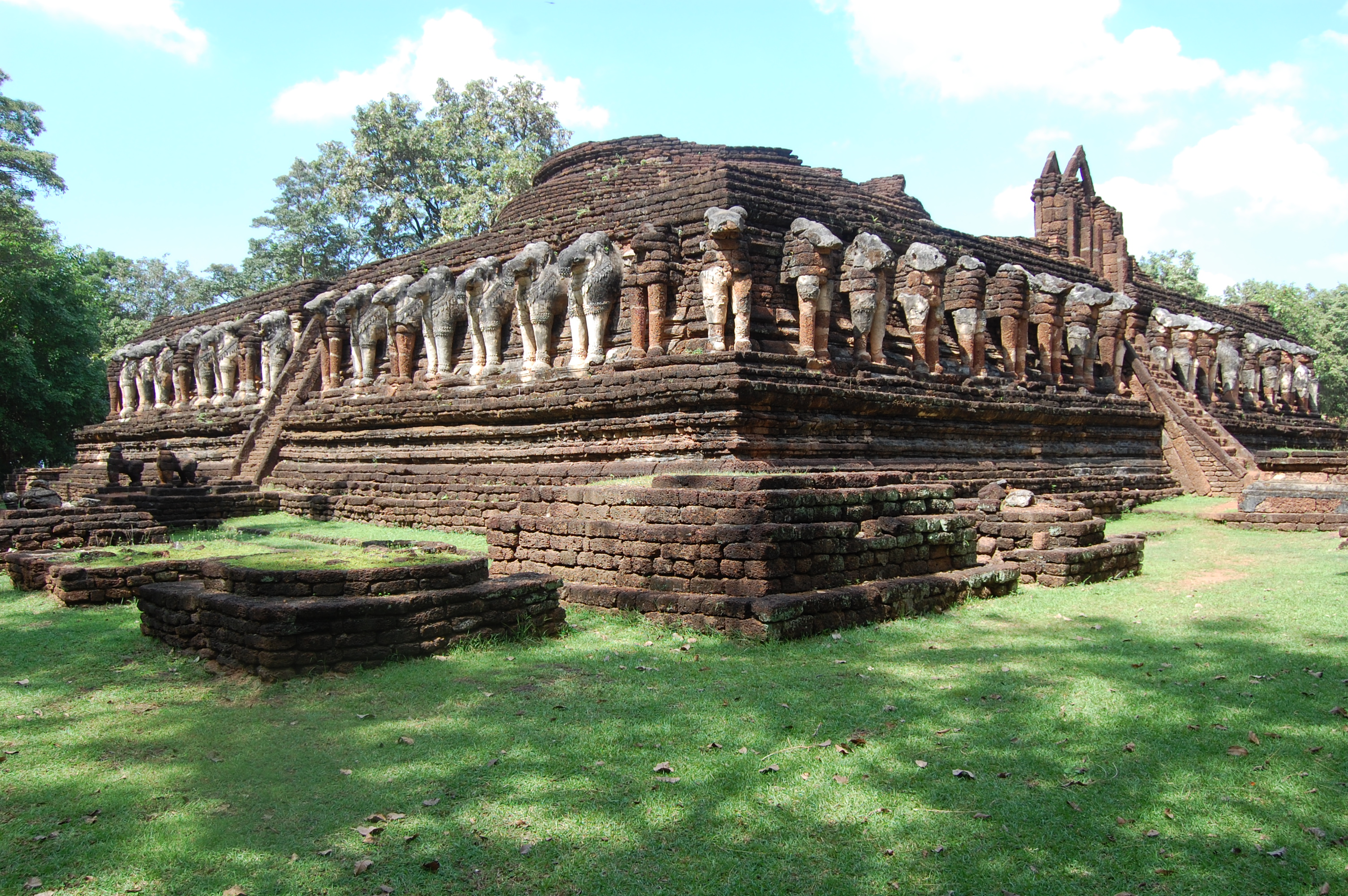 Kamphaeng Phet historical park